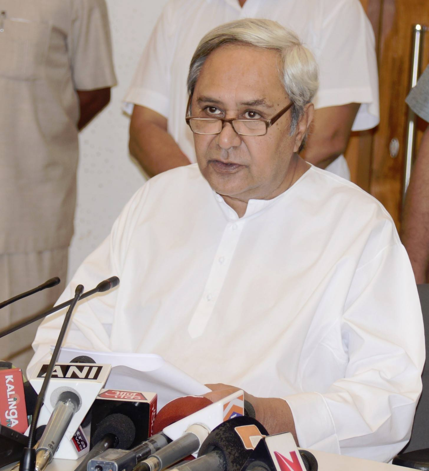 Naveen Patnaik addressing press regarding Budget 2016.